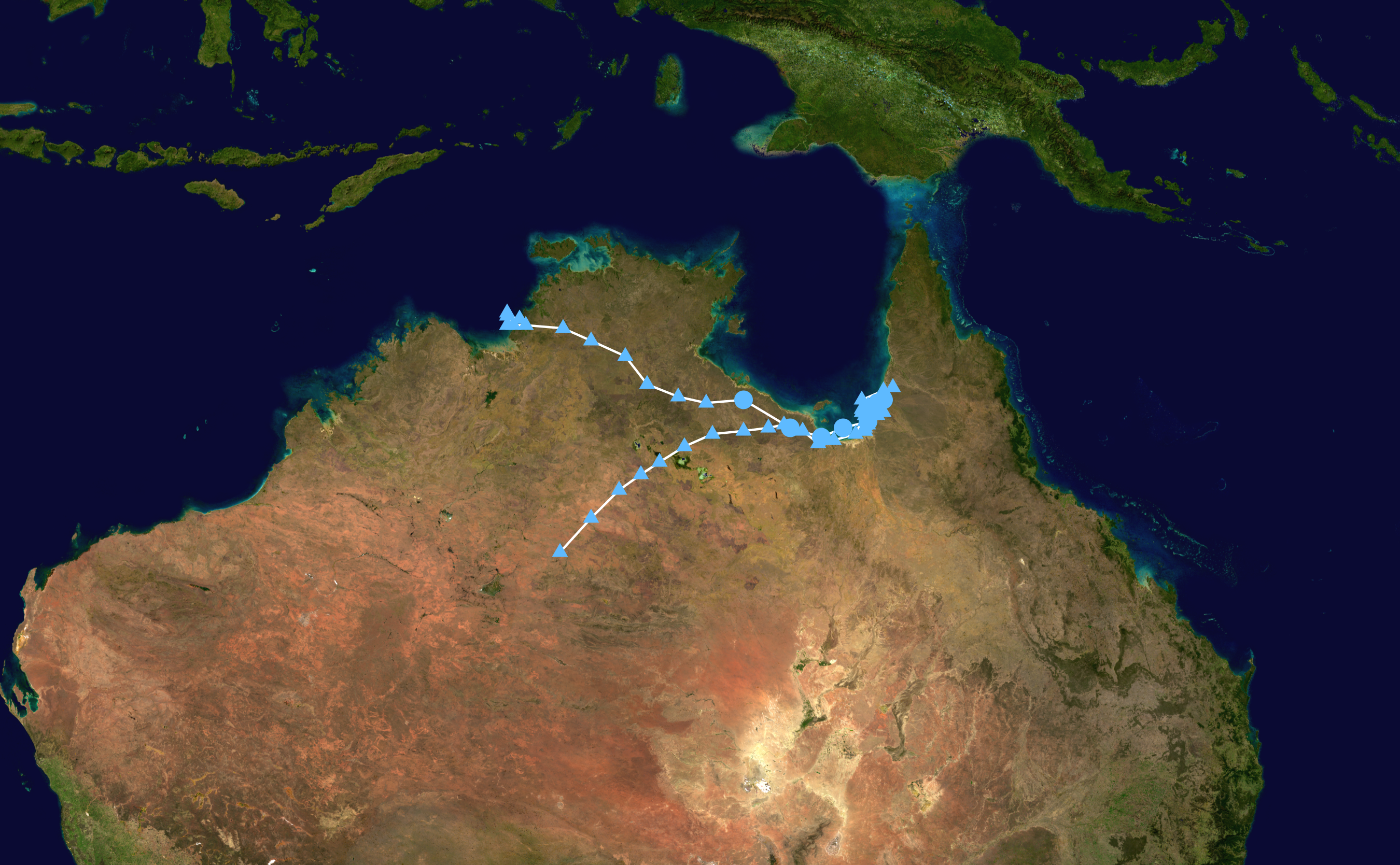 Track map of Tropical Low Fletcher of the 2013-14 Australian region cyclone season. The points show the location of the storm at 6-hour intervals. The colour represents the storm's maximum sustained wind speeds as classified in the Saffir–Simpson scale (see below), and the shape of the data points represent the nature of the storm, according to the legend below. Saffir–Simpson scale Tropical depression≤38 mph≤62 km/h Category 3111–129 mph178–208 km/h Tropical storm39–73 mph63–118 km/h Category 4130–156 mph209–251 km/h Category 174–95 mph119–153 km/h Category 5≥157 mph≥252 km/h Category 296–110 mph154–177 km/h Unknown Storm type Tropical cyclone Subtropical cyclone Extratropical cyclone / Remnant low / Tropical disturbance / Monsoon depression